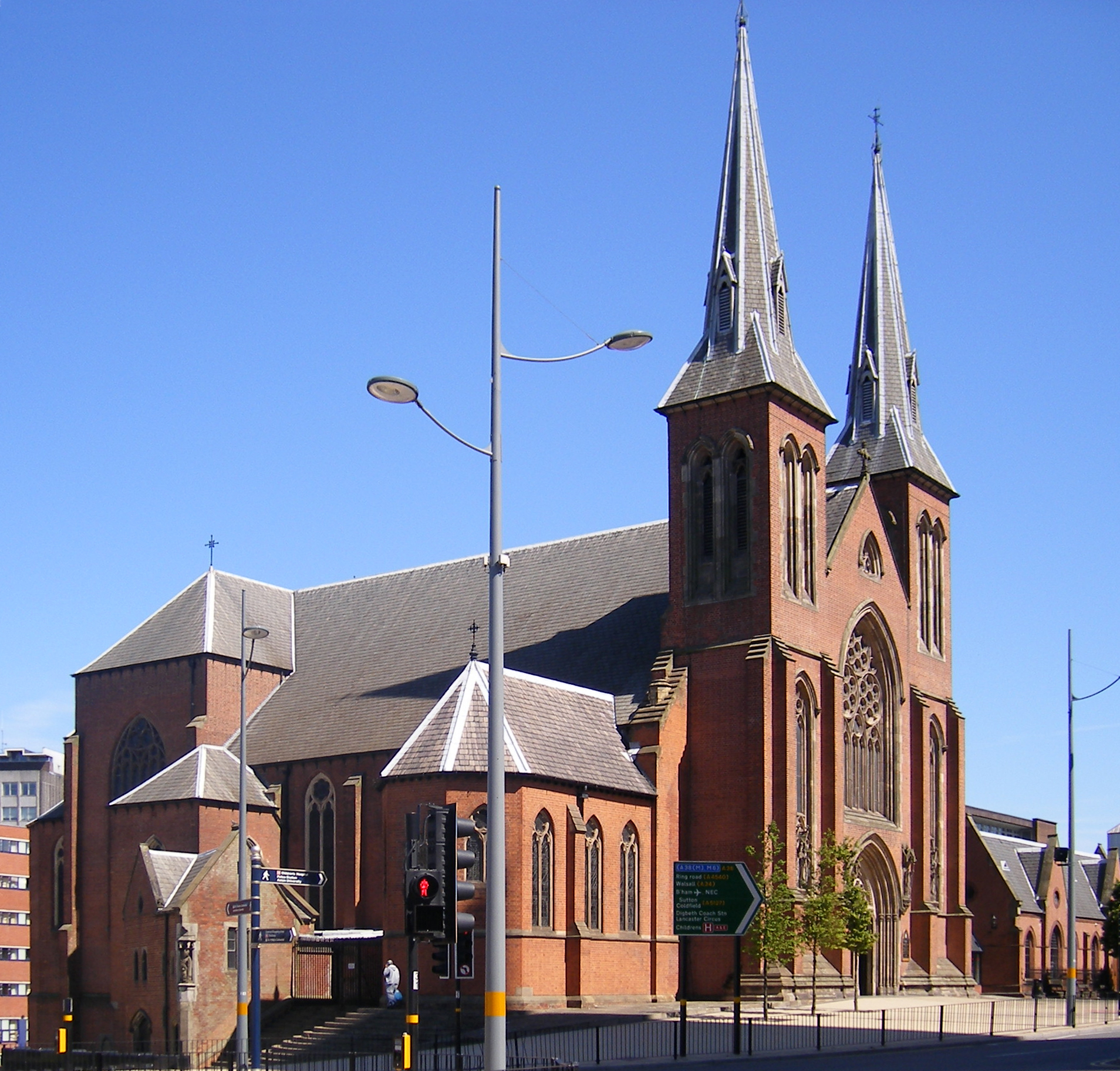 Crop with verticals corrected of File:St Chad's Cathedral.jpg, showing St Chad's Cathedral, Birmingham, by Augustus Pugin, from the suth.